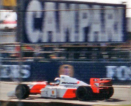 Mika Hakkinen (McLaren-Peugeot) during the 1994 British Grand Prix.